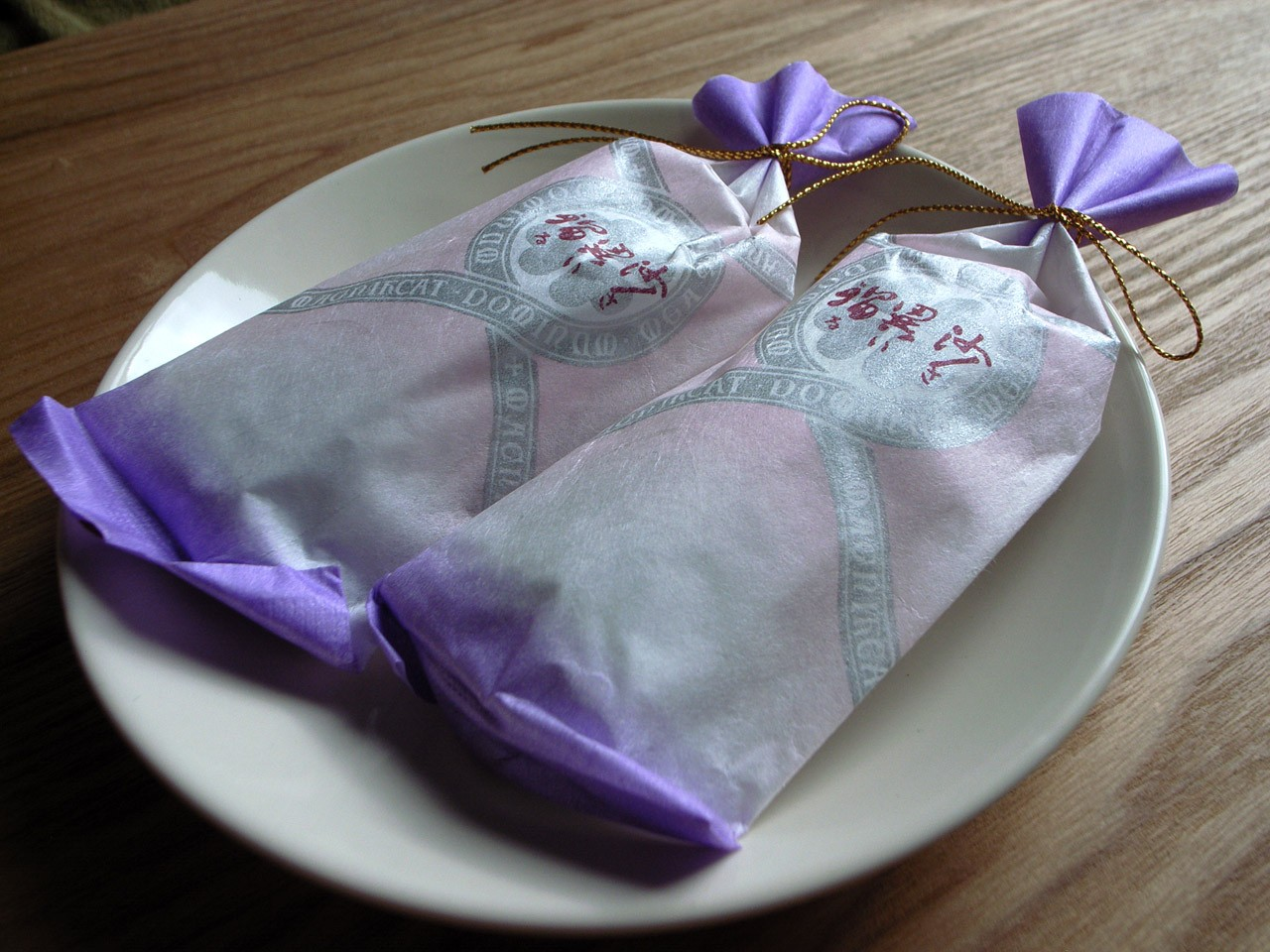 Ruisa, local confectionery from Oita City, Oita Pref., Japan / 瑠異沙（大分県大分市の銘菓）